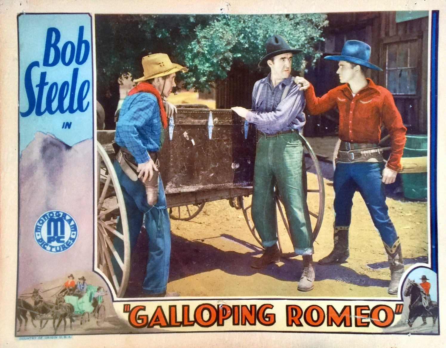 Lobby card for the American western film Galloping Romeo (1933).